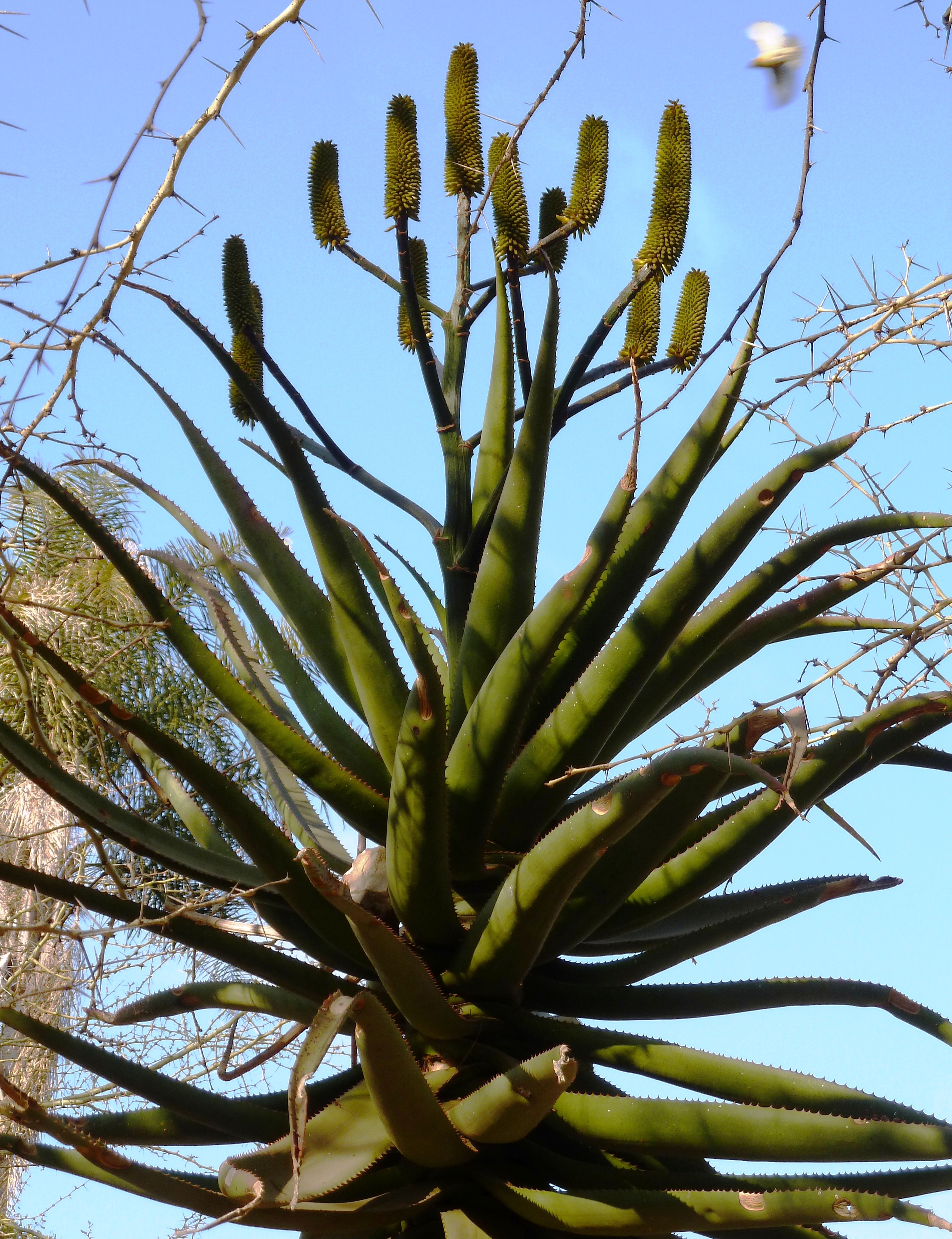 Early, green inflorescence of the Bottlebrush aloe, Pretoria